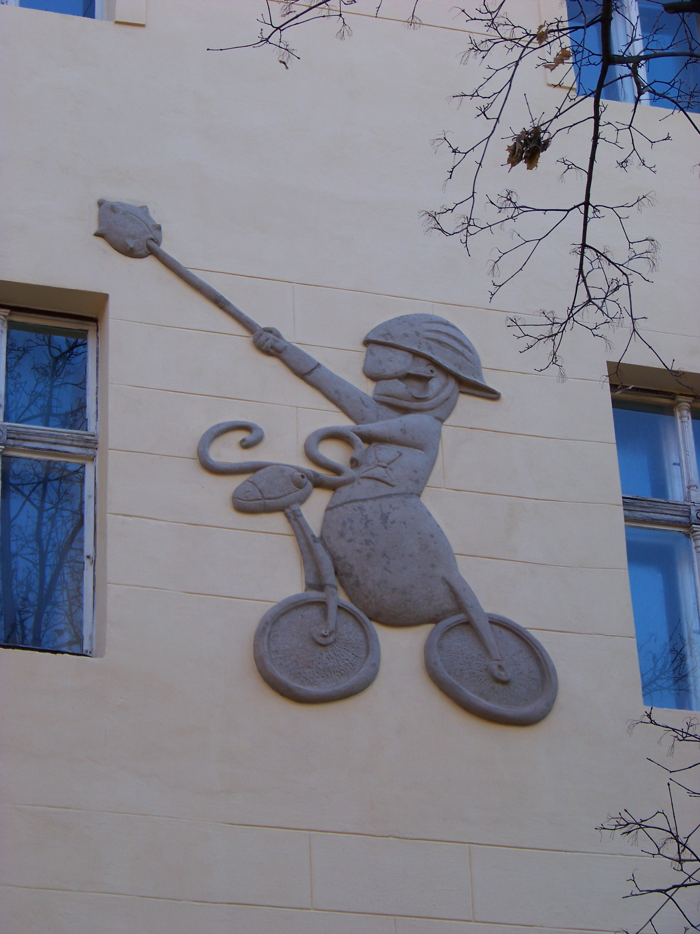 Prague-Žižkov. A view from the bikeway on the former railway track Prague–Turnov. A relief on the building of the pub "U vystřelenýho oka".